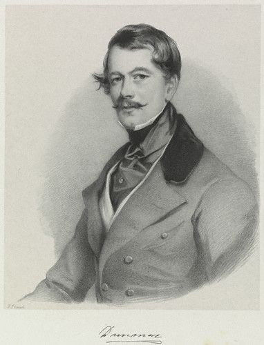 Alexander Murray, 6th Earl of Dunmore (1804-1845)